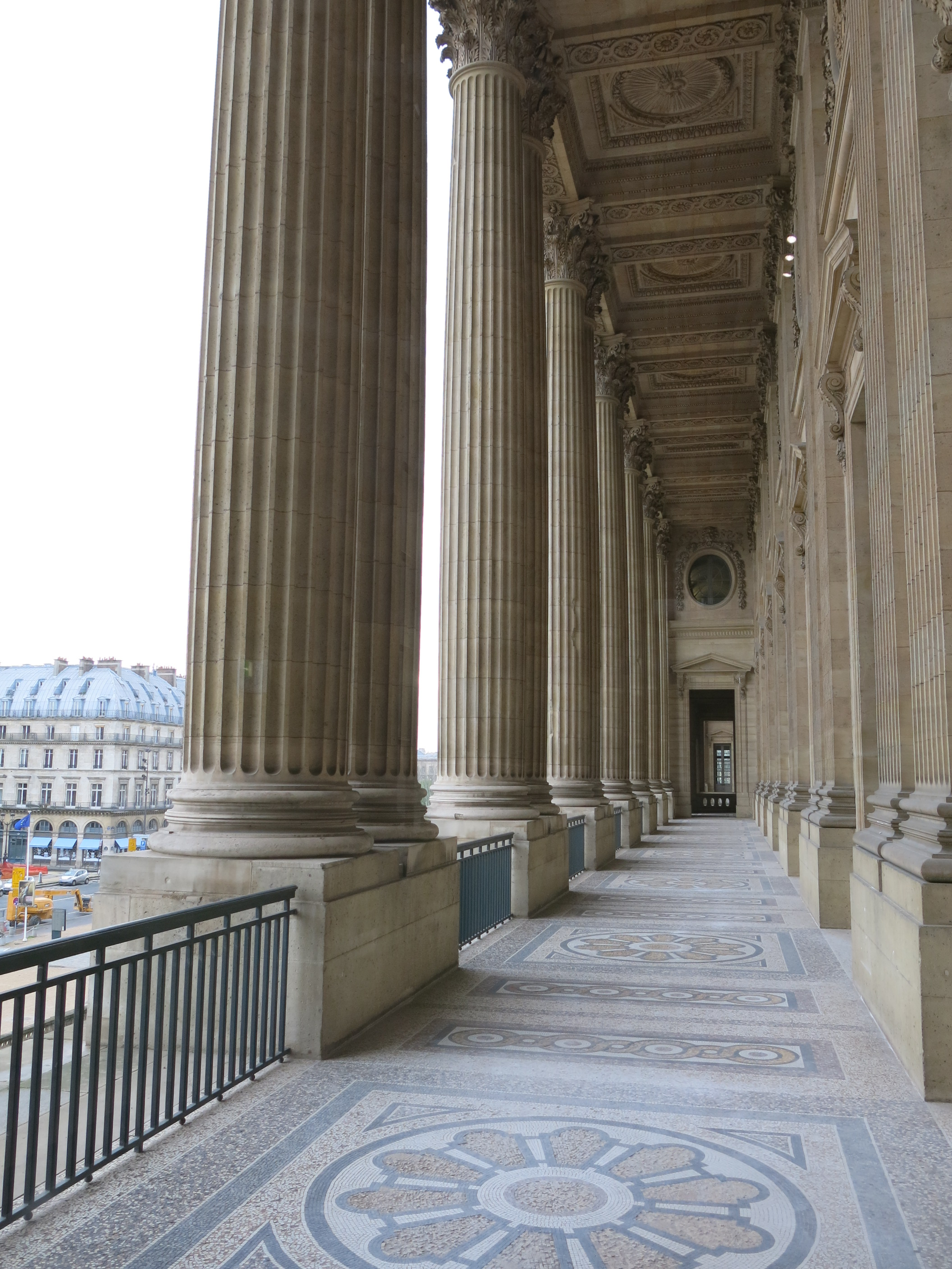 Interior view of the colonnade du Louvre. From north-east corner looking to the south. Louvre museum (Paris, France).